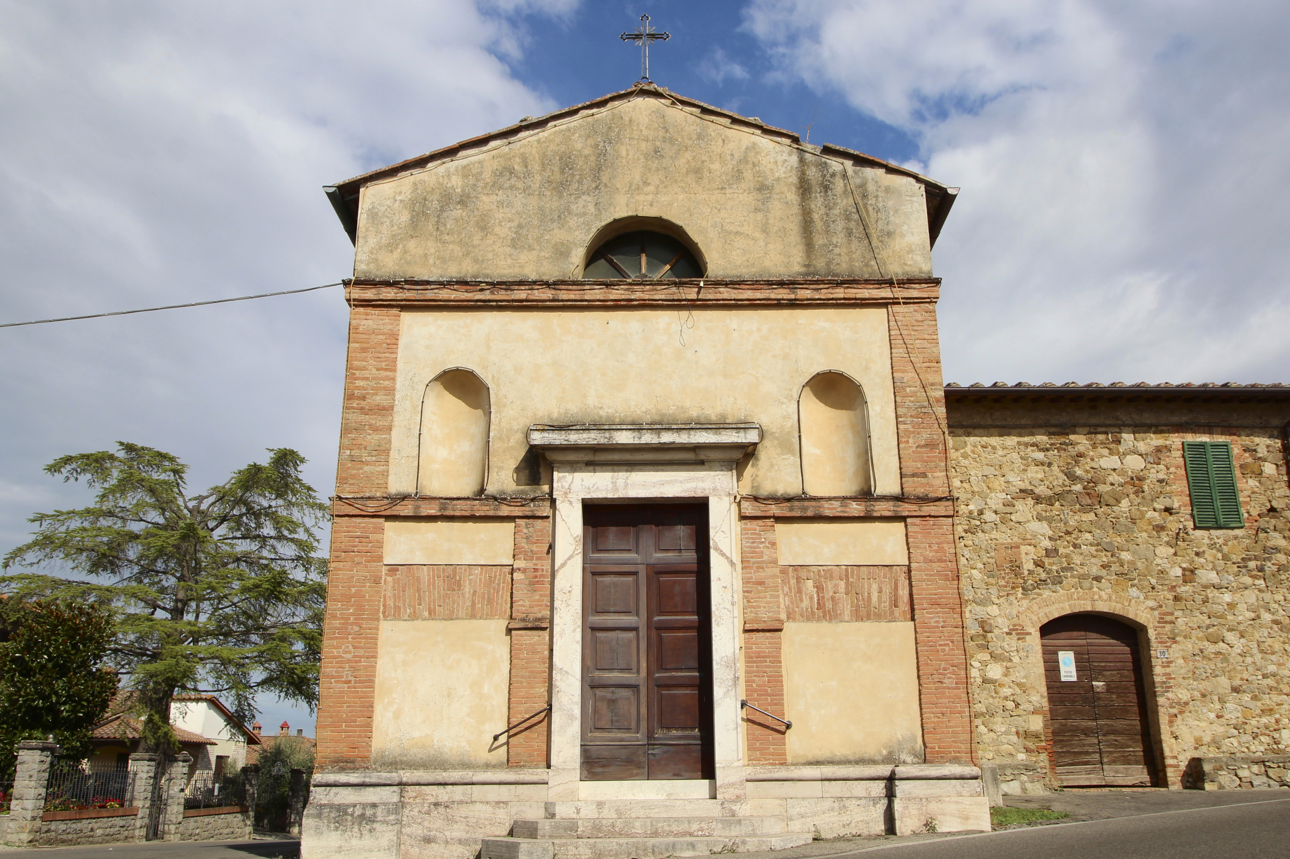 Church Santi Giacomo e Niccolò, Quercegrossa, hamlet of Castelnuovo Berardenga and Monteriggioni, Province of Siena, Tuscany, Italy. The Church is on the side of Castelnuovo Berardenga.